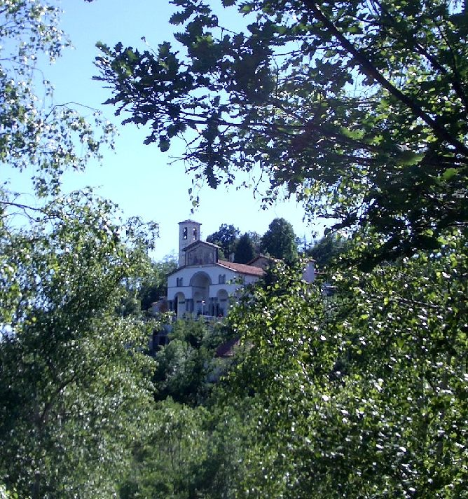 The Sacro Monte of Belmonte (Piedmont, Italy) Landscape with the sanctuary